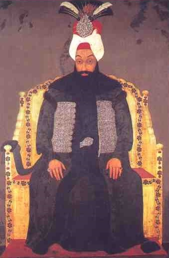 Minature of Adbulhamid I